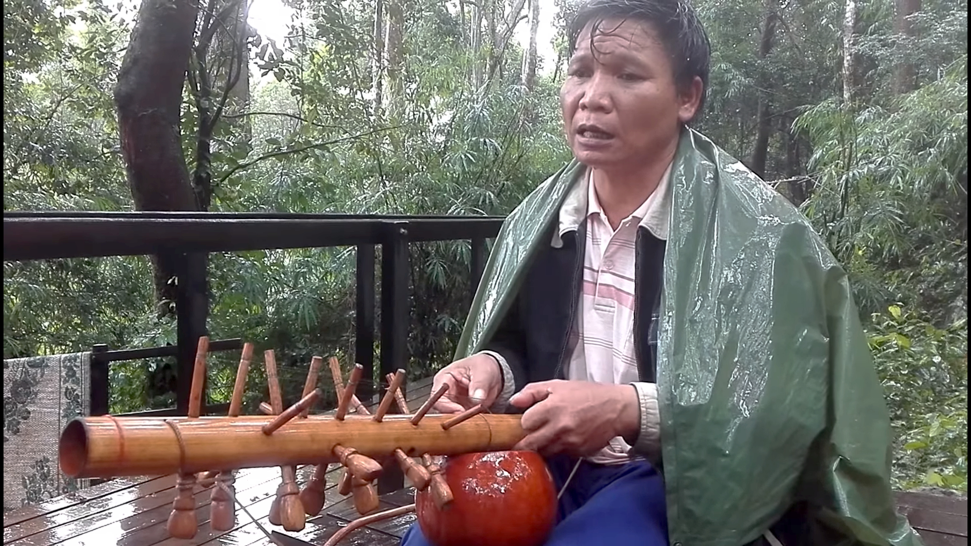 Kong ring គង់រេង (tube zither), in Mondul Kiri province, Cambodia.